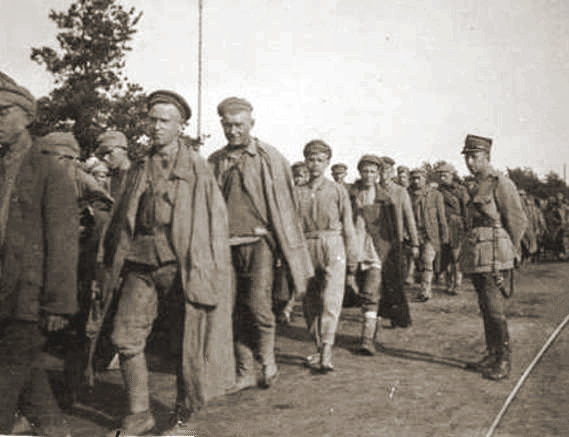 A column of Soviet prisoners of war on their way to the camp in Rembertów